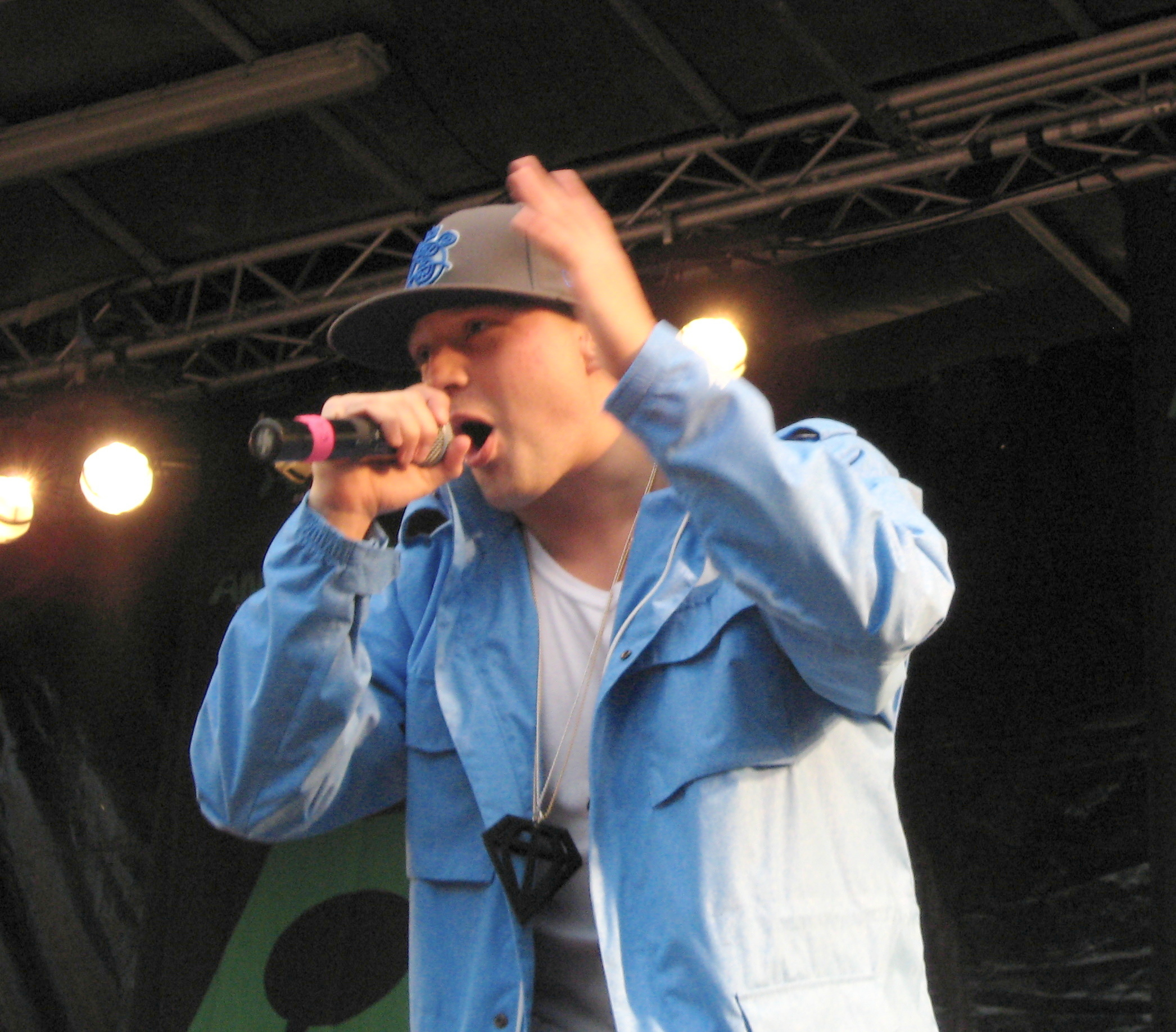 Clemens Legolas Telling / MC Clemens (a Danish singer) performing in Hjørring, Denmark in September 2011